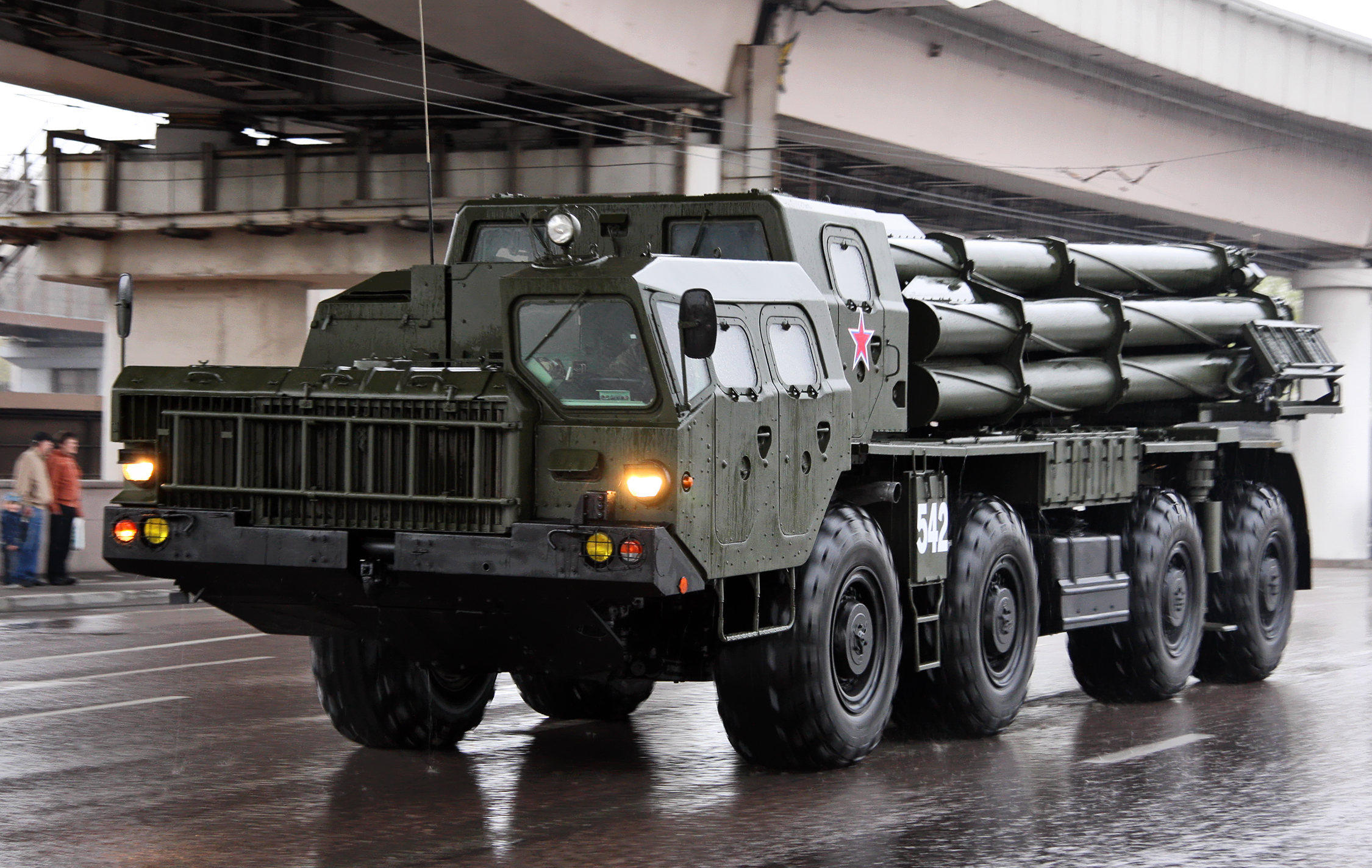 2011 Moscow Victory Day Parade